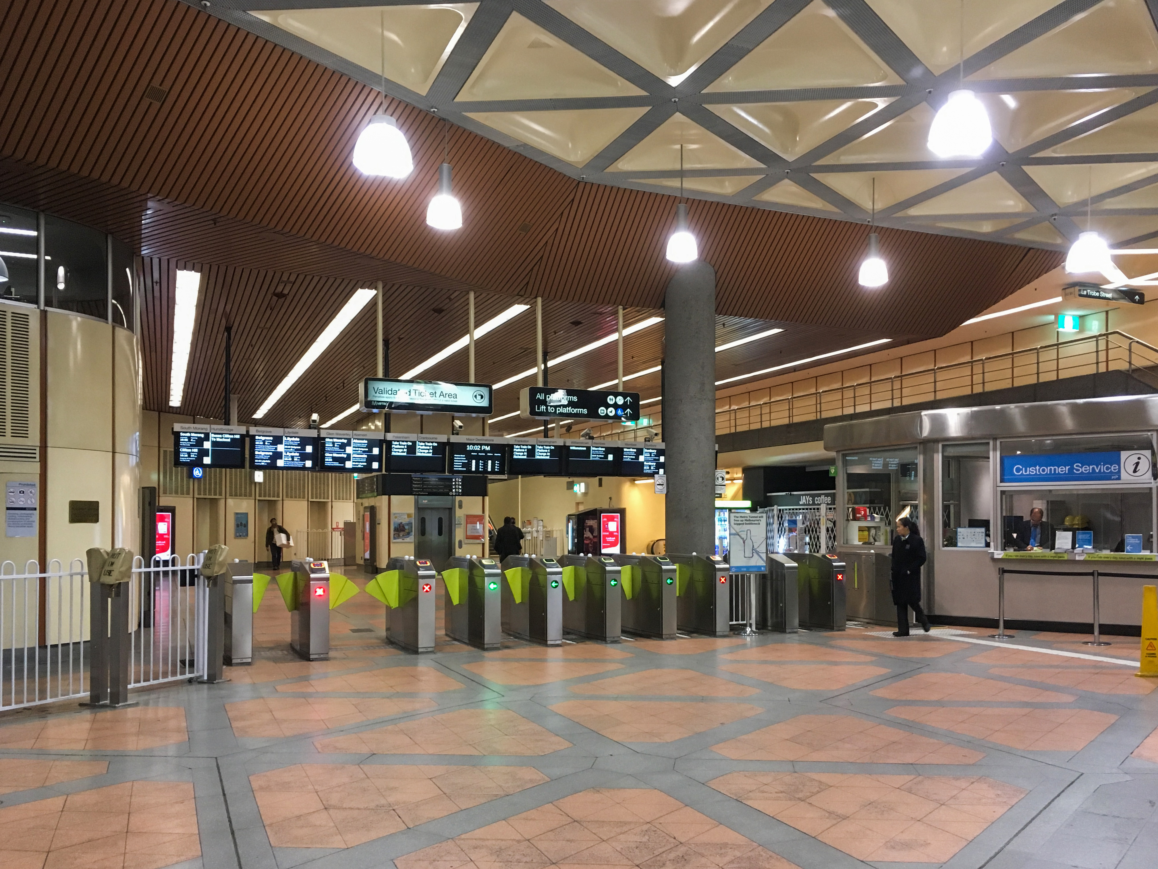 Flagstaff Station Concourse